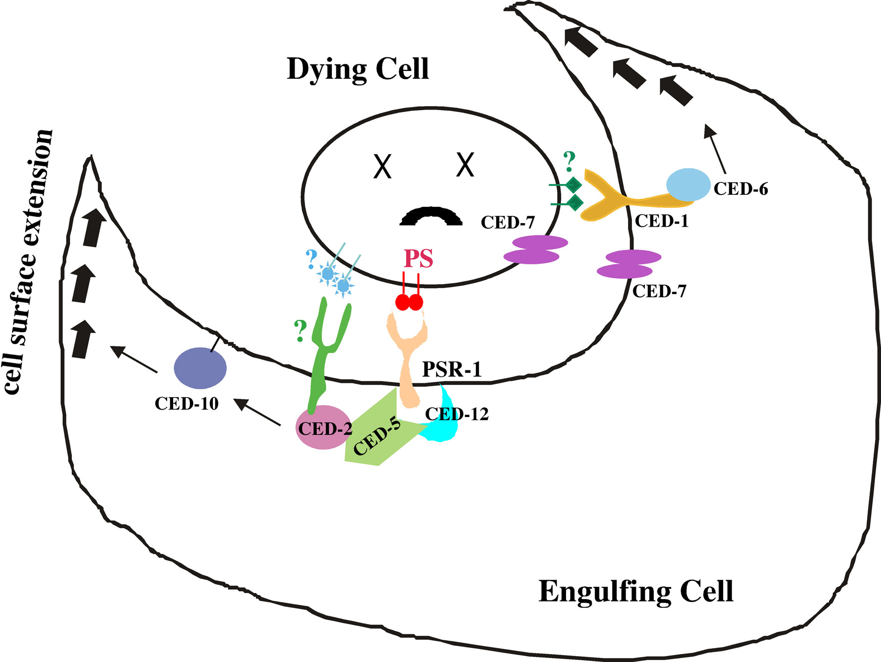 A cell undergoing apoptosis displays transmembrane signals that may be recognized by another cell. The cell that recognizes the transmembrane signals begins to express the CED protein family. CED-2, CED-5 and CED-12 interact in a trimeric Guanine Nucleotide Exchange Factor (GEF), and activate CED-10, a Rac-GTPase. CED-10 then directly influences the polymerization of the actin cytoskeleton, promoting the phagocytic activity of the engulfing cell.